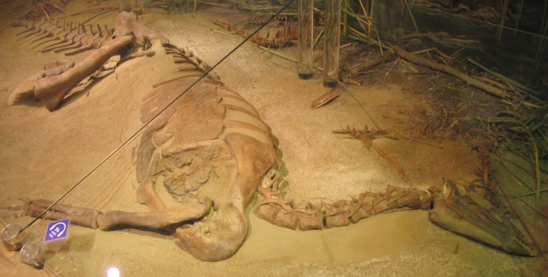 "Willo," the "Thescelosaurus with a heart", from the North Carolina Museum of Natural Sciences